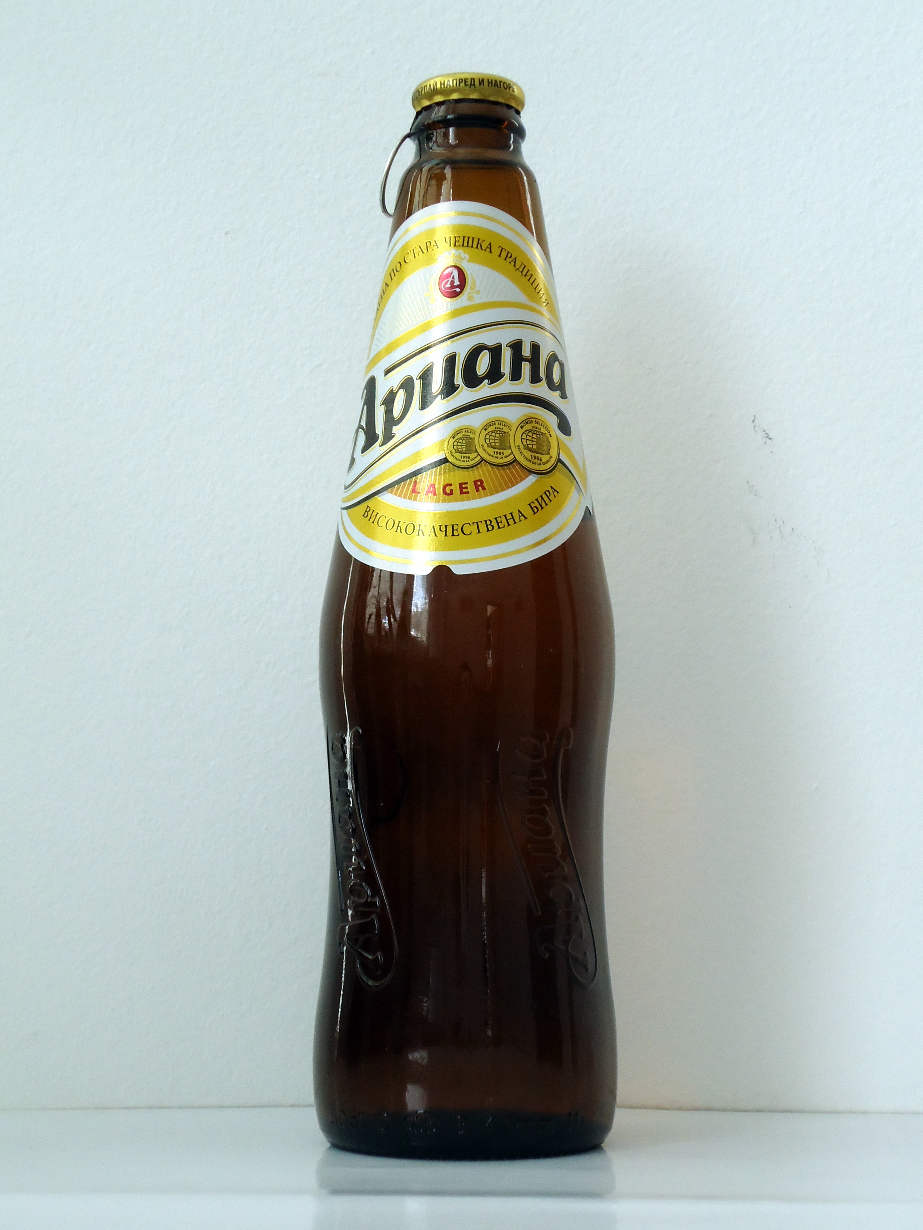 Ariana lager beer (Bulgaria)